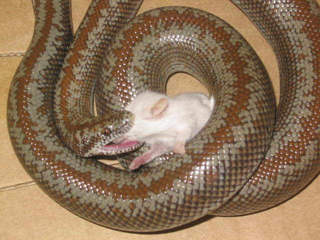 A photo of a pet Rosy Boa, Alice, eating a mouse in a cardboard box.